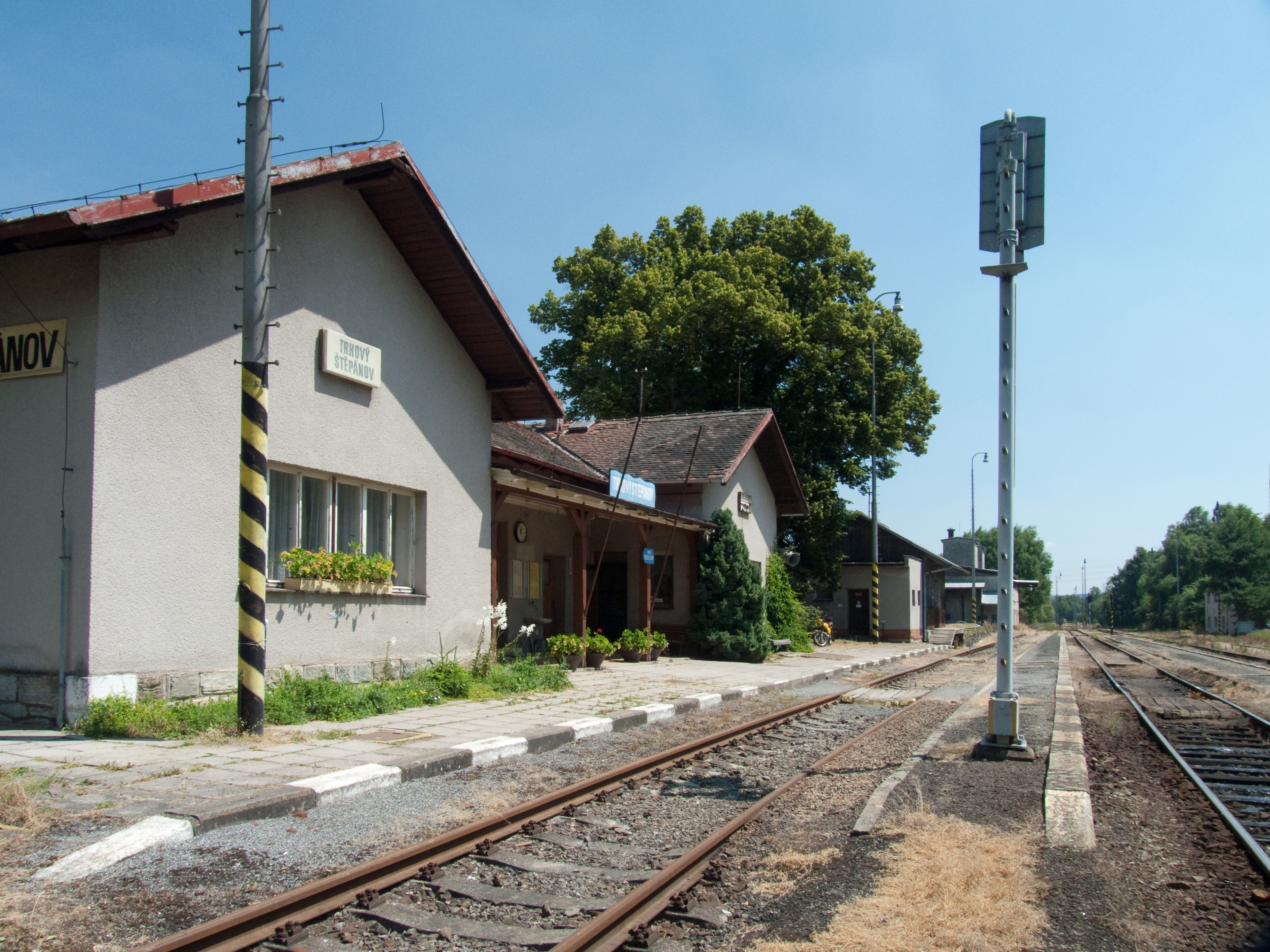 Railway station in the town of Trhový Štěpánov, Benešov district, Czech Republic